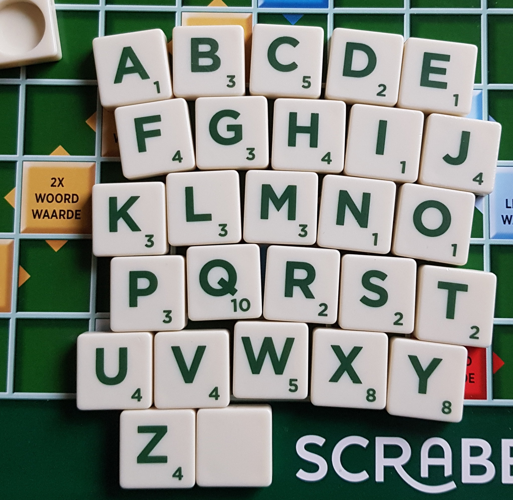 plastic Scrabble (game) letters Dutch language, modern game play, with a part of the Scrabble board in the background